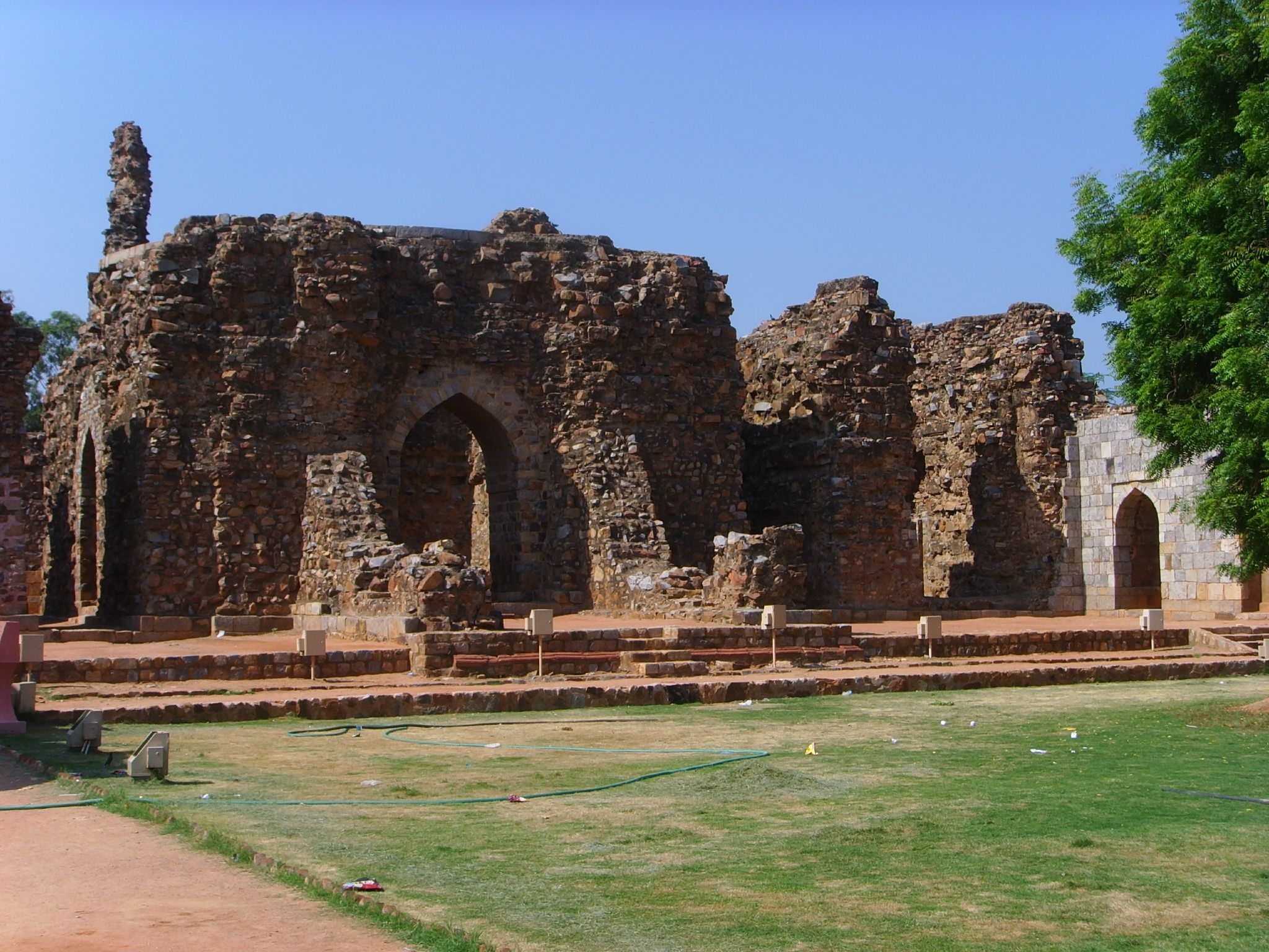 Tomb of Alauddin Khilji, Qutub Minar complex, Delhi.